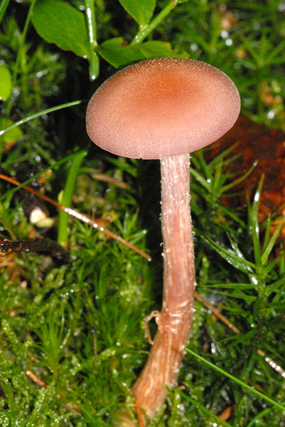 Laccaria laccata s. l. from Commanster, Belgium. The determination of the species shown in this picture has been verified.